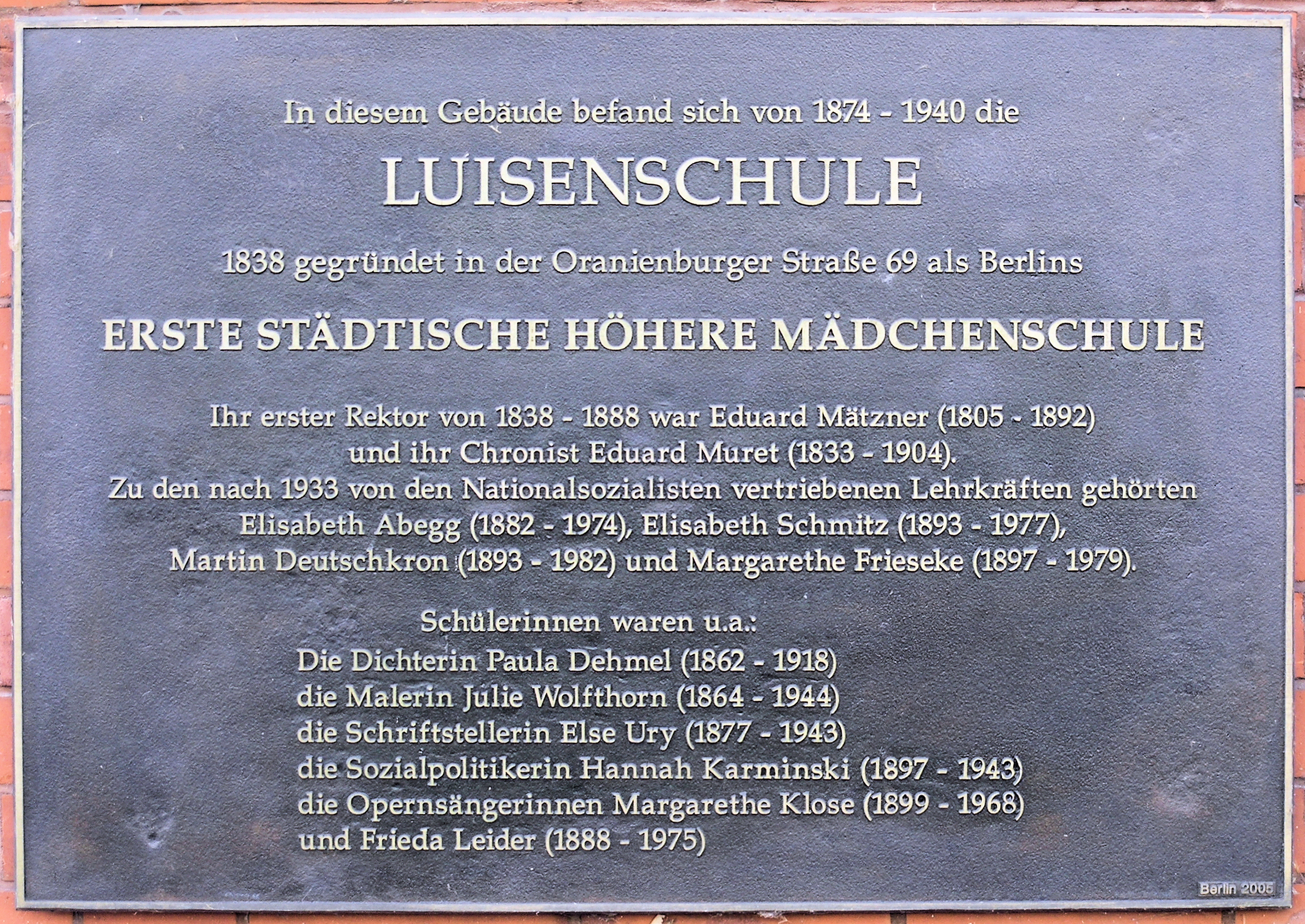 Memorial plaque, Erste städtische höhere Mädchenschule, Luisenschule, Ziegelstr 12, Berlin-Mitte, Germany